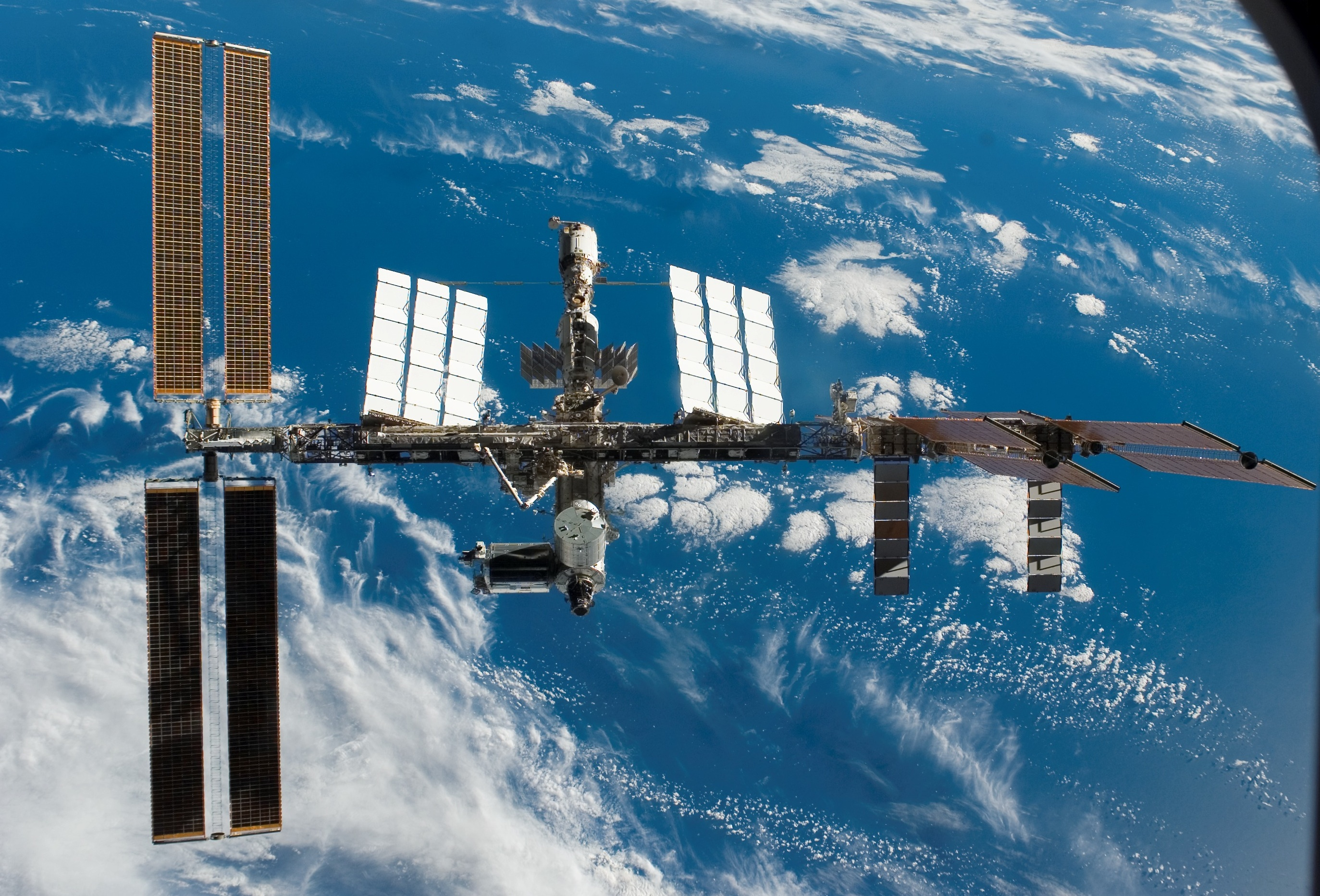 ISS post-STS-123 undocking